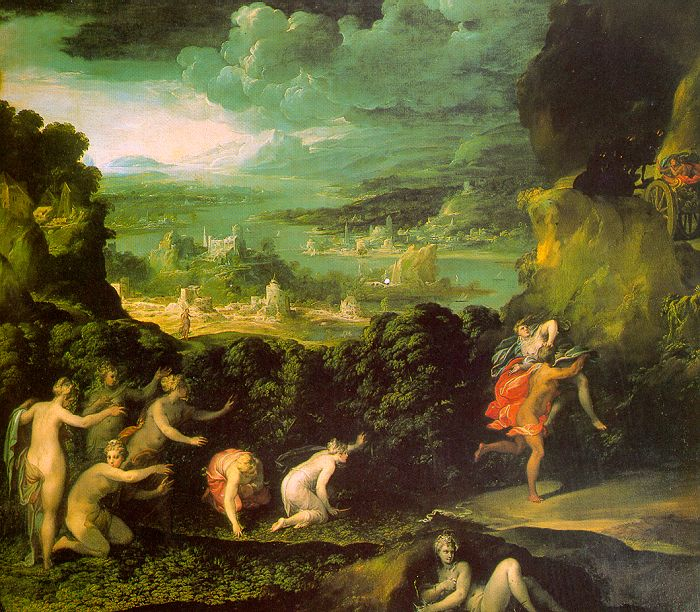 The Rape of Proserpine Alternative title(s)